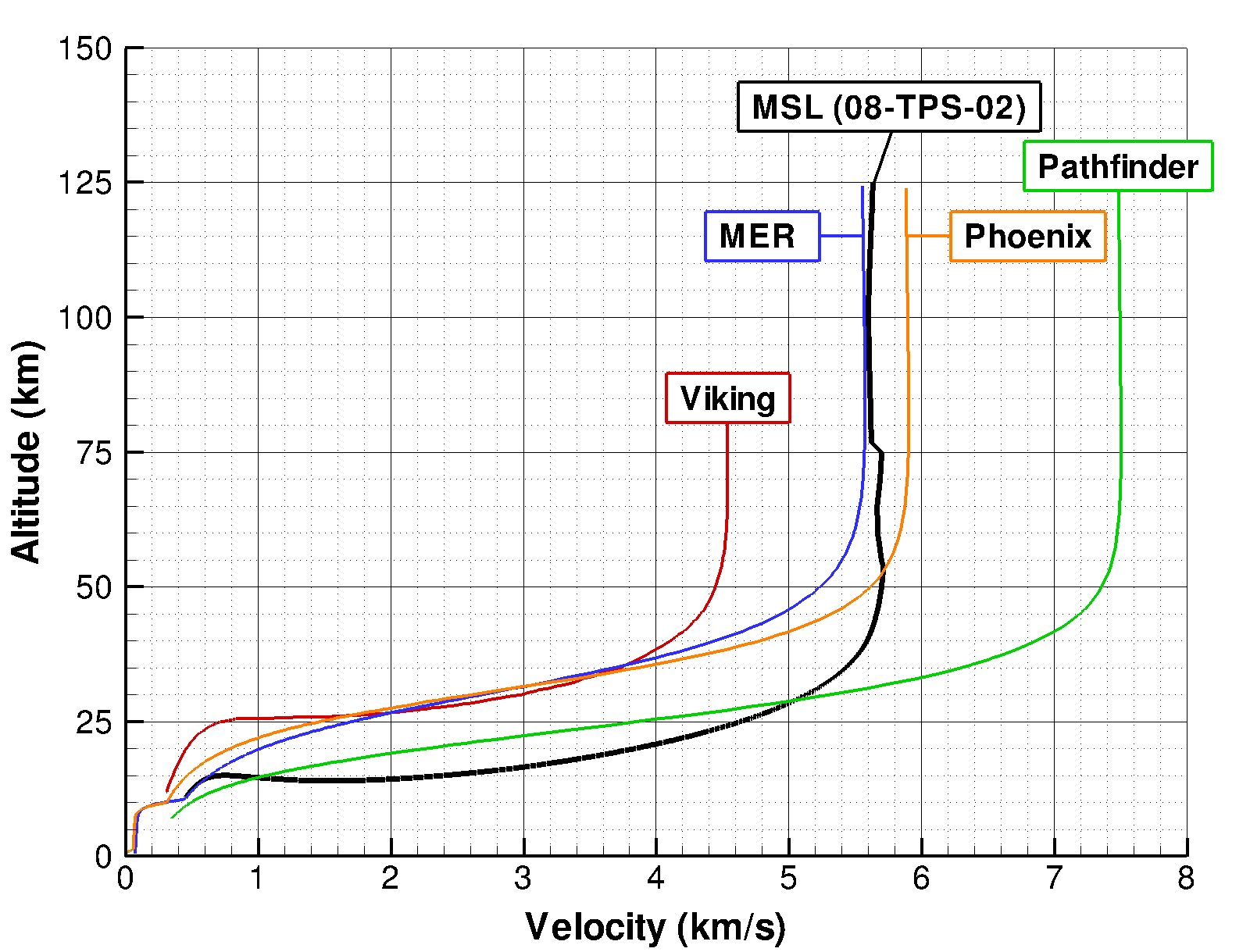 Mars-Science-Laboratory-Mars-Entry-Trajectory